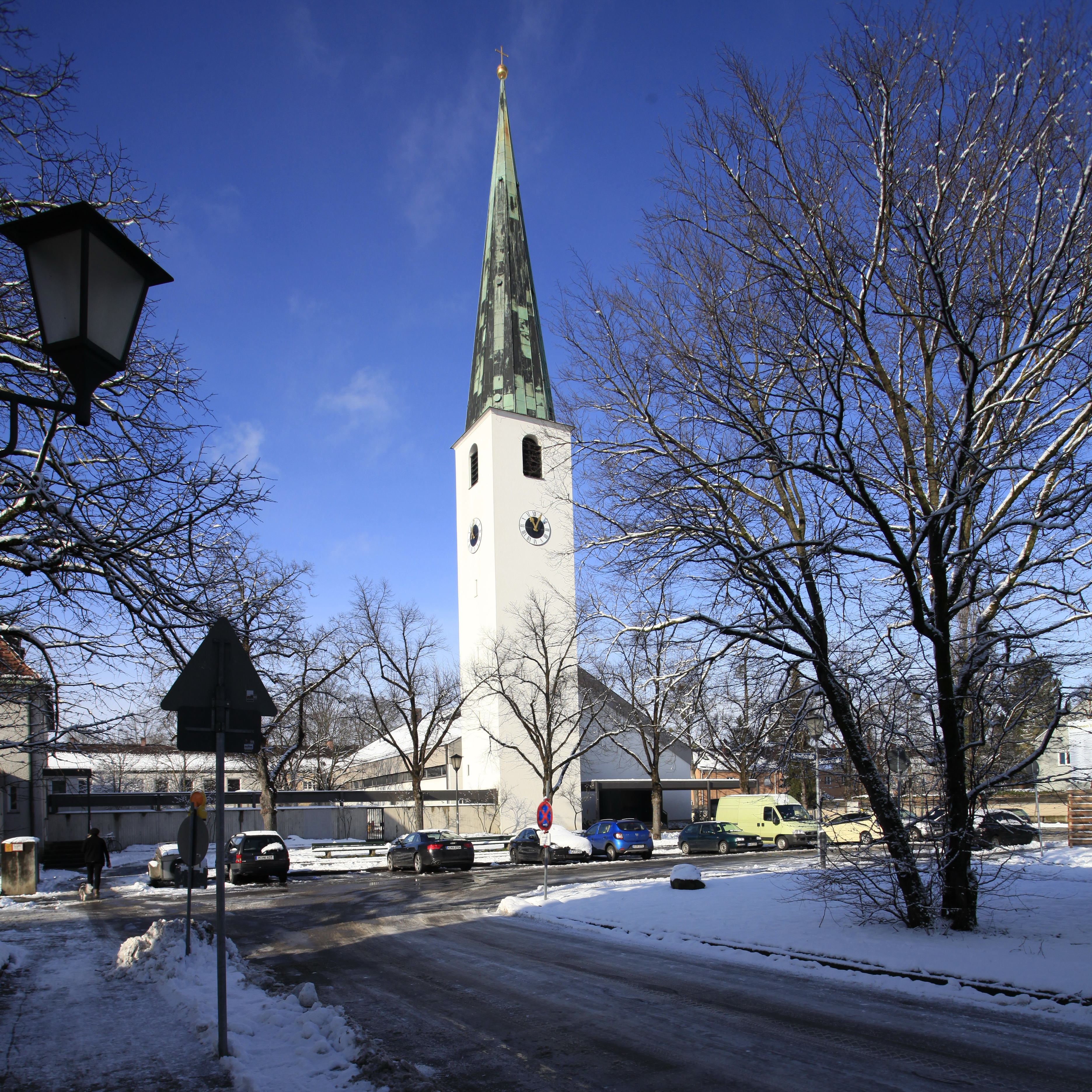 Namen-Jesu-Kirch in Munich Laim